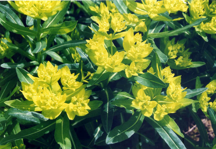 Euphorbia hyberna